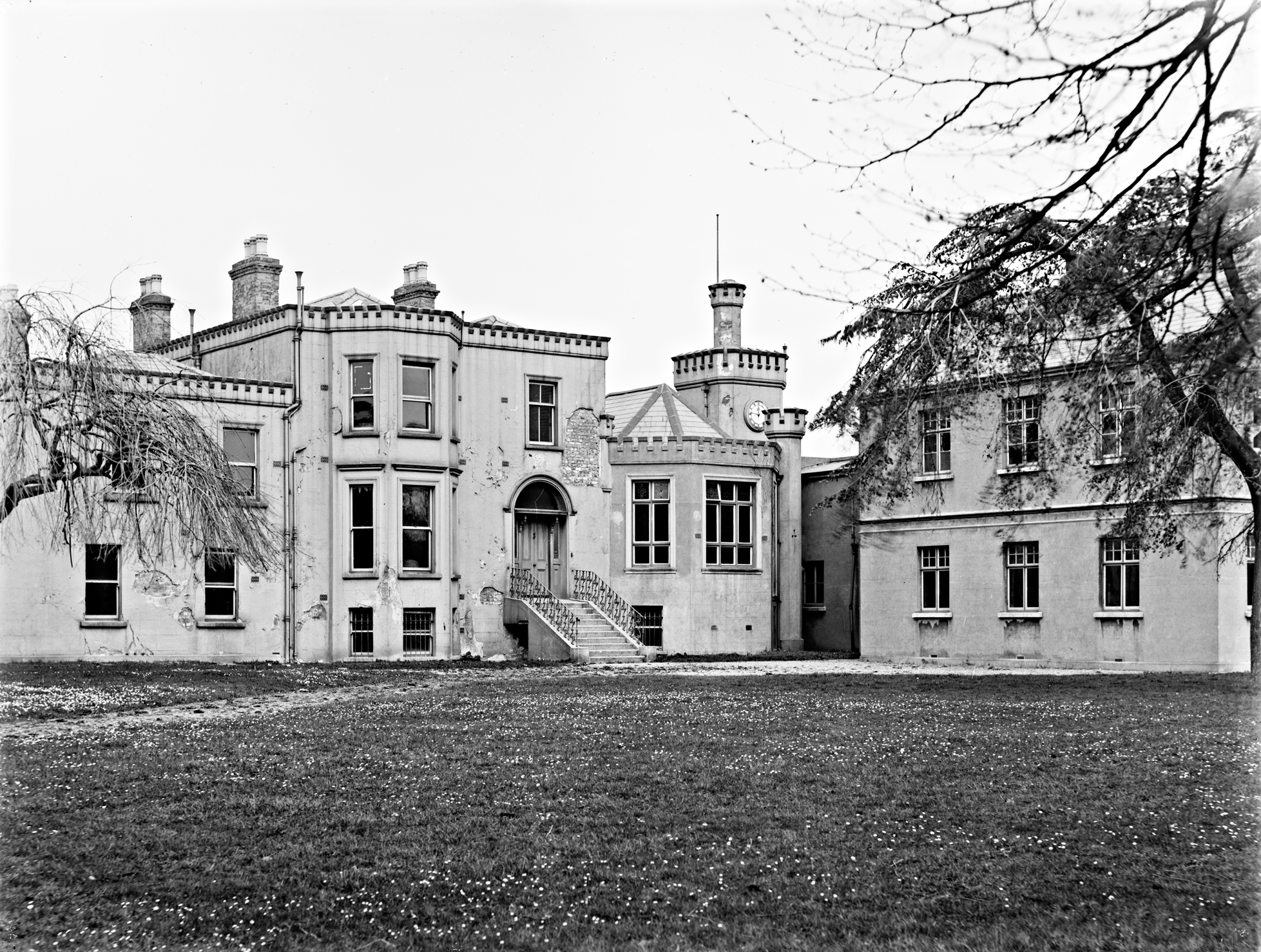 You'd all thwarted my previous attempts at providing a difficult challenge from our "unknown location" Fergus O'Connor Collection images, nonchalantly despatching some of them in as little as 30 minutes. Well not this one, Flickroonies! I had threatened to eat the original glass plate negative if this one was solved quickly, but as it took us 10 months, don't think I have to make good on that offer. All we had on this one was "Large house, with a clock tower and crenellated rooftop, in an unknown location", and the clock told us it was taken around 11:45. Though the time didn't help much, the clock tower certainly did. Almost 10 months to the day from its original posting, zetetic2006 said: "I recognised it immediately! It's Sandymount Castle on Sandymount Green in Dublin, the crenellated clock-tower is a giveaway. The rear of the castle backs onto the southern side of the Green where you can still see the clock tower, check out Google Maps. The view in this photo is no more, Castle Park was built in these grounds, sometime in the 50's or 60's I think." Date: 1900-1920 NLI Ref.: OCO 381